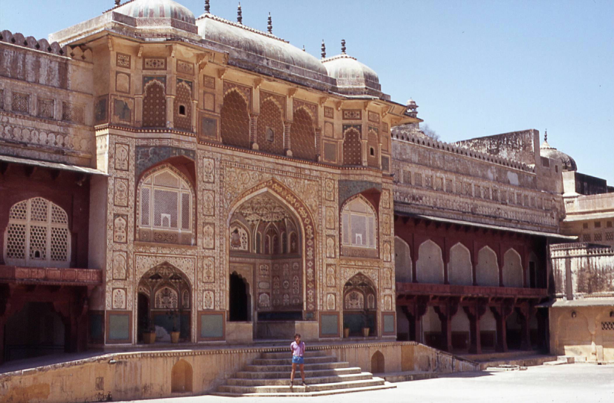 Fort at Amber, India